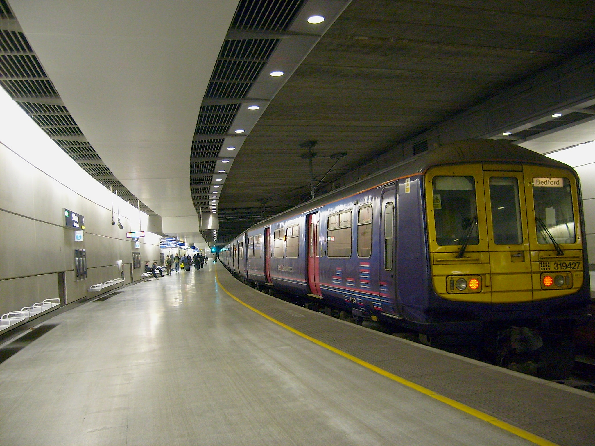 First Capital Connect Class 319/4 No. 319427 at London St. Pancras International